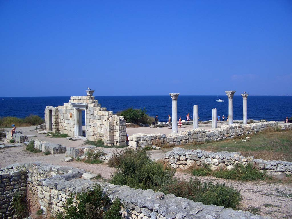 A ruins of a temple, Chersonesos, Ukraine